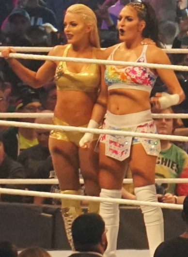 Mandy Rose (left) and Sonya Deville (right) at the WrestleMania 34 event on April 8, 2018